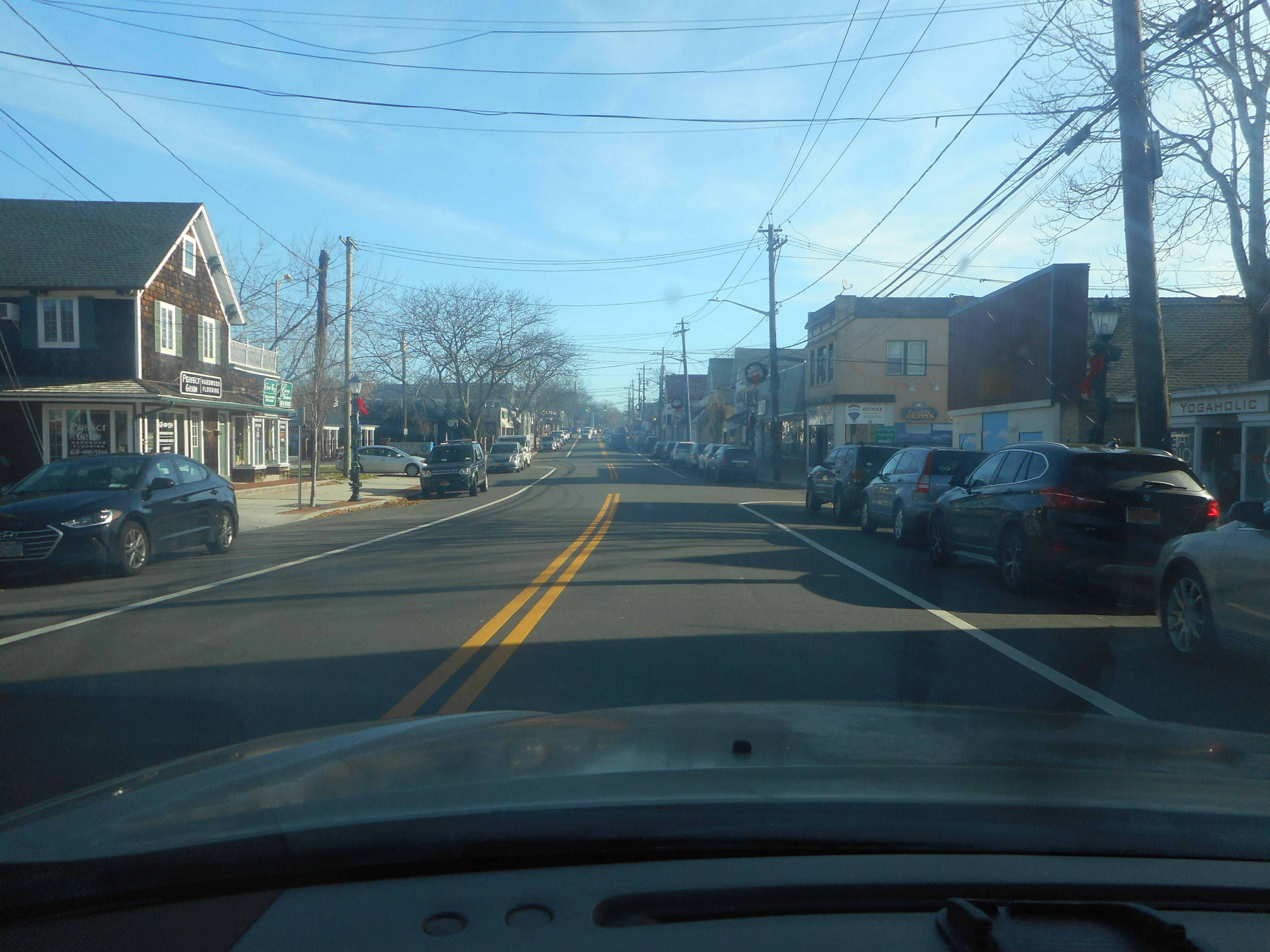 Eastbound Main Street (Montauk Highway / Suffolk County Road 80) as it enters downtown Center Moriches, New York. This view is just before the intersection with Canal Street.